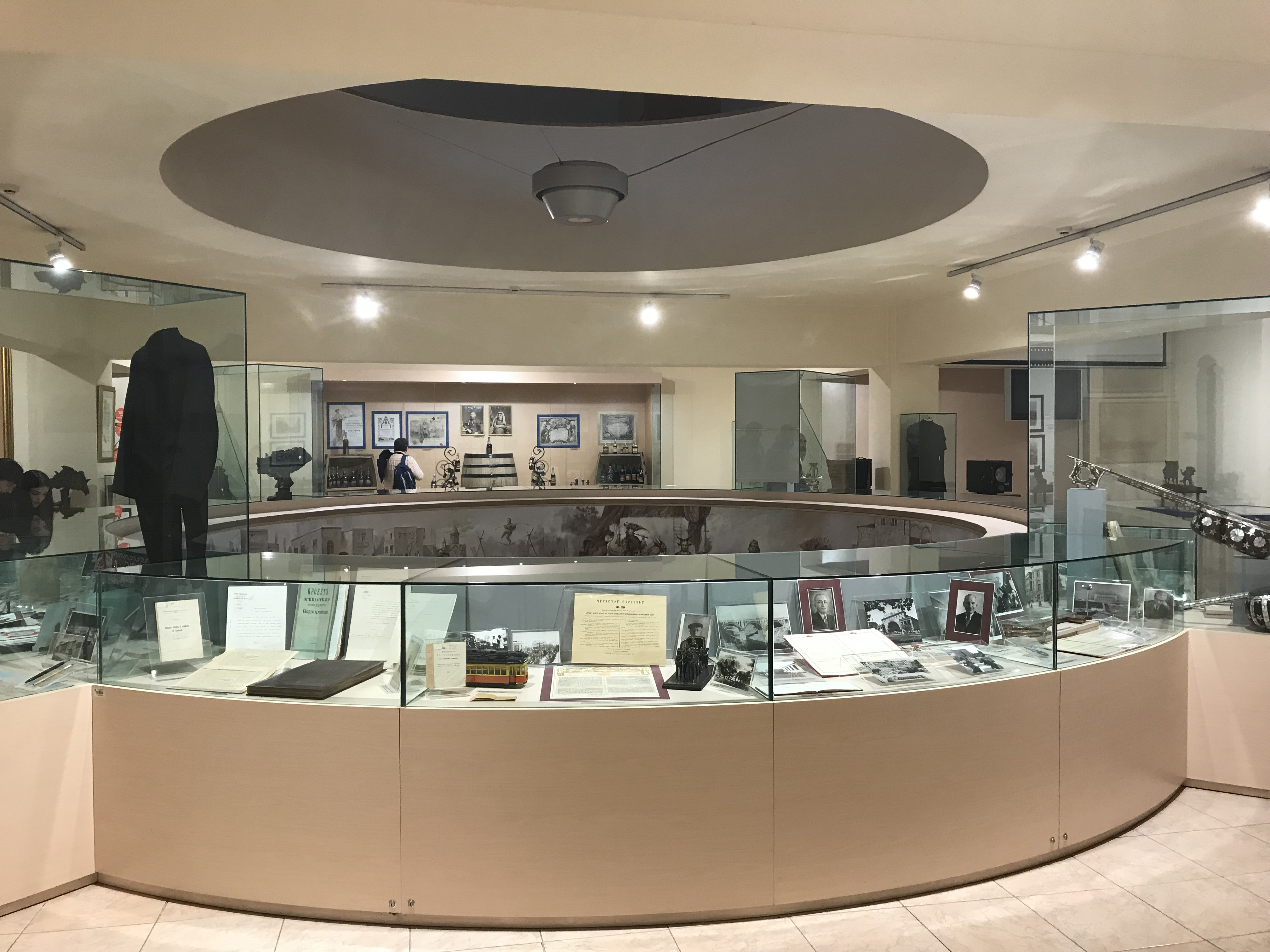 Yerevan History Museum.